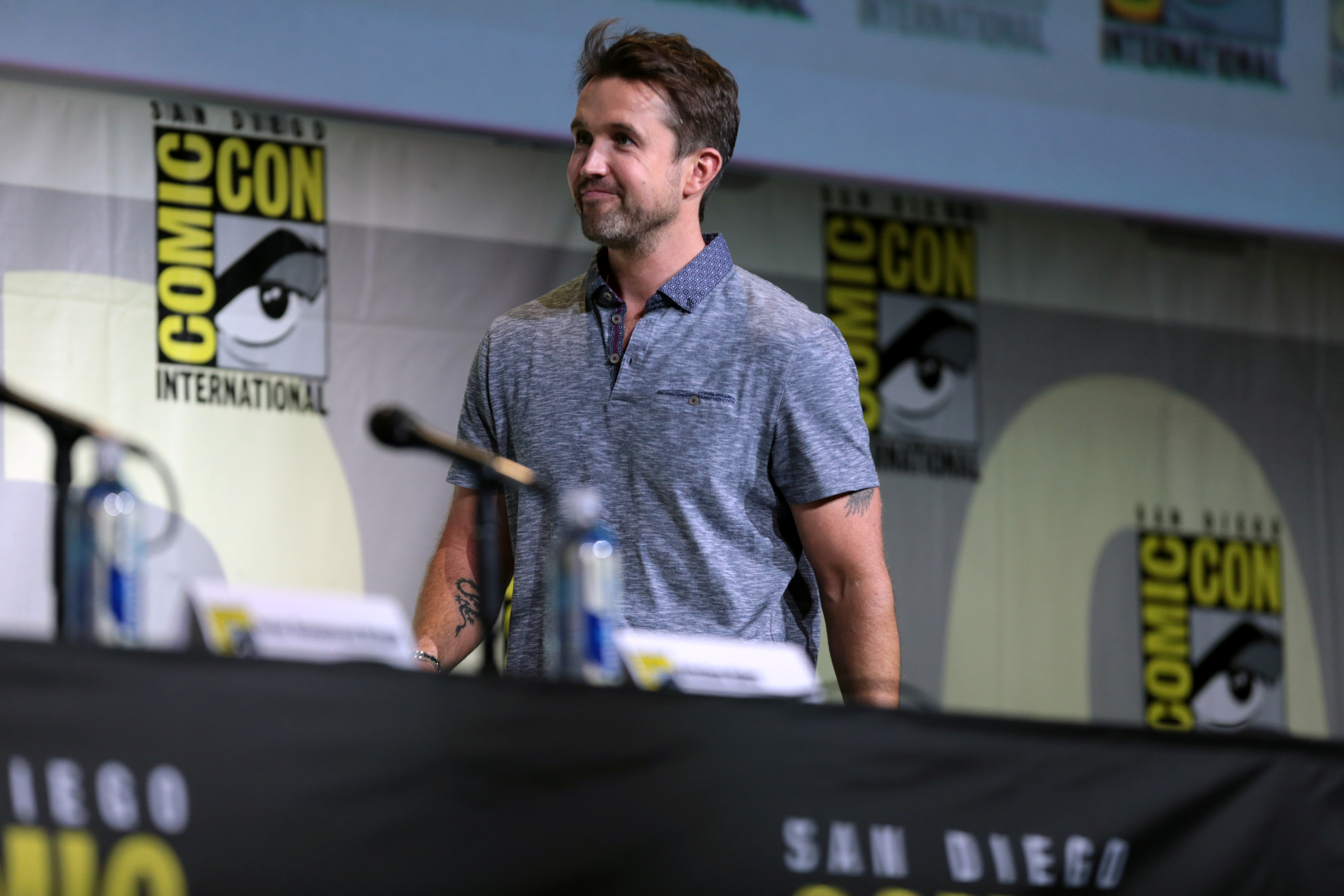 Rob McElhenney speaking at the 2016 San Diego Comic Con International, for "Game of Thrones", at the San Diego Convention Center in San Diego, California.